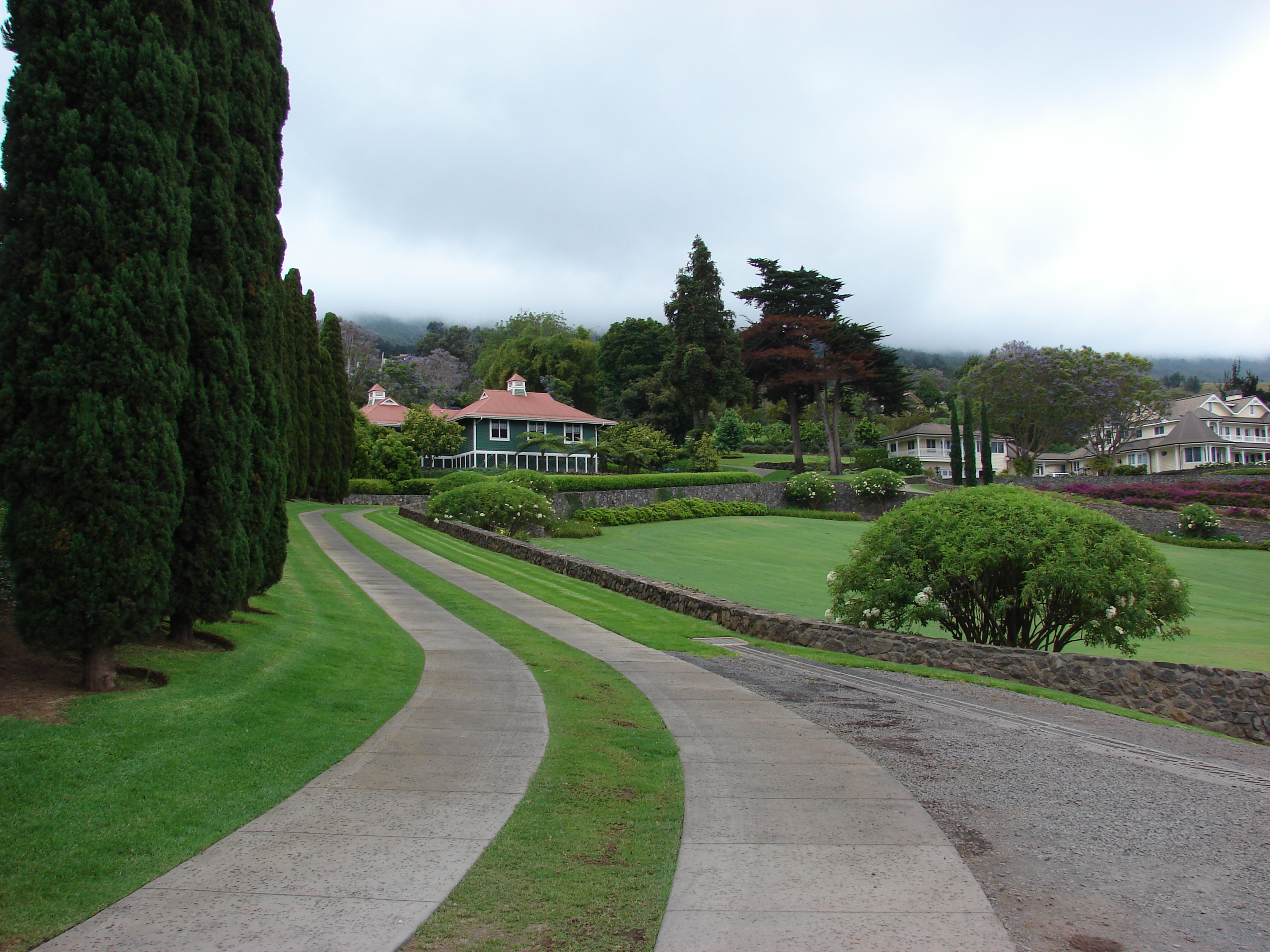 Sambucus mexicana (in landscaping). Location: Maui, Oluolu Rd Kula